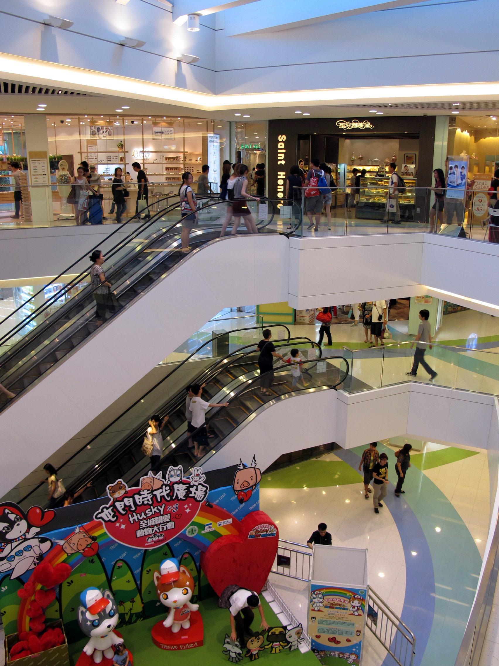 HK Trend Plaza South Wing Void 屯門時代廣場南翼商場中庭